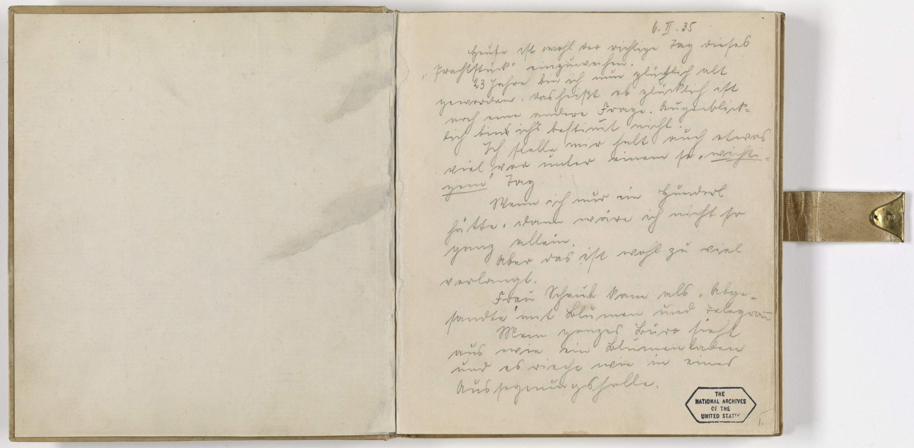 Diary of Eva Braun page 1 hms id number hd1-99101676